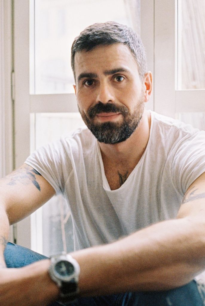 Kalle Zackari Wahlström in 2017.